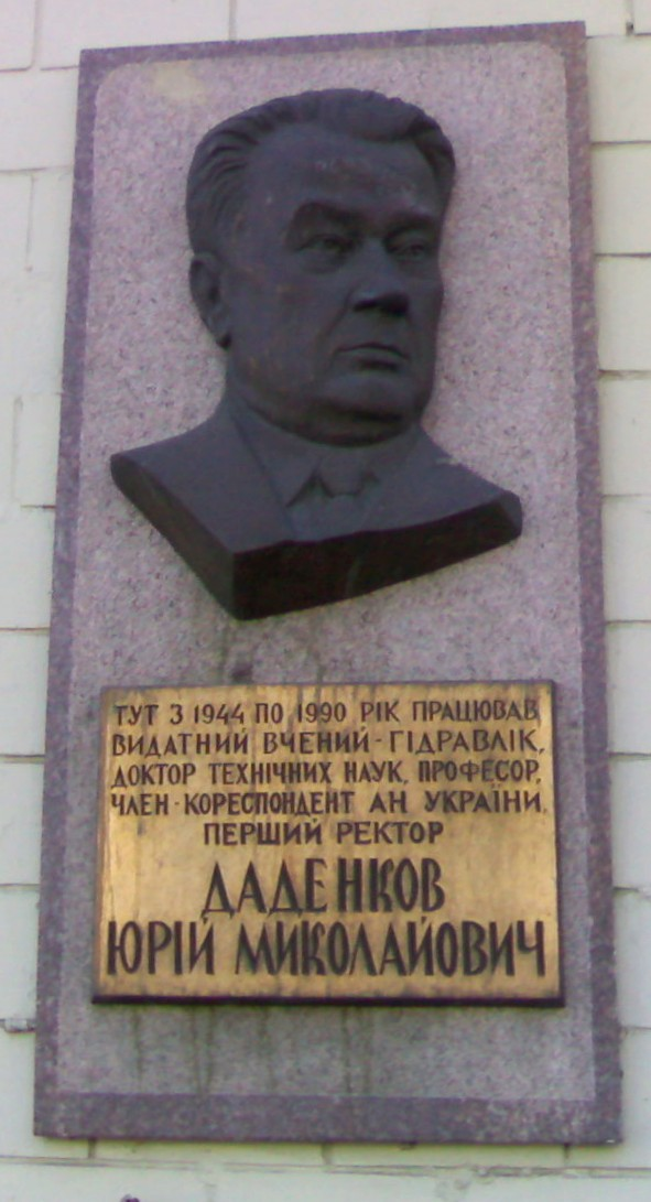 Memorial plaque Dadenkov Y.M. in the main building of the National Transport University in Kiev